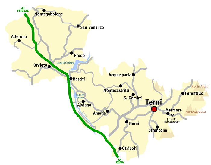 map of Terni province, Umbria, Italy